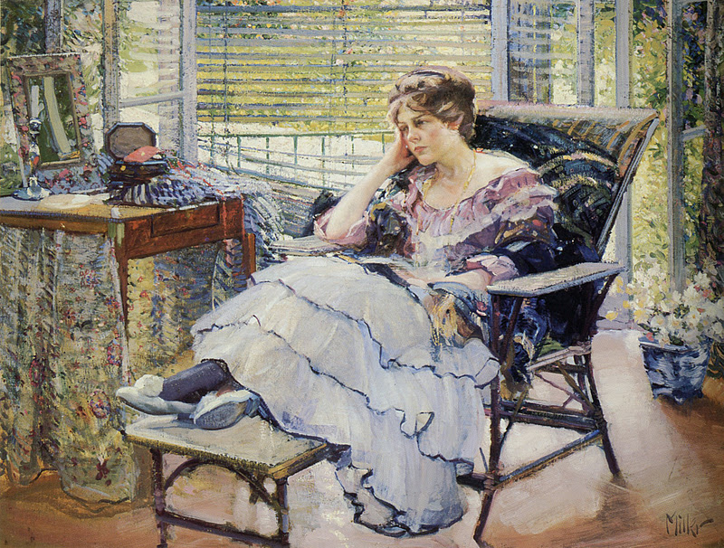 Reverie